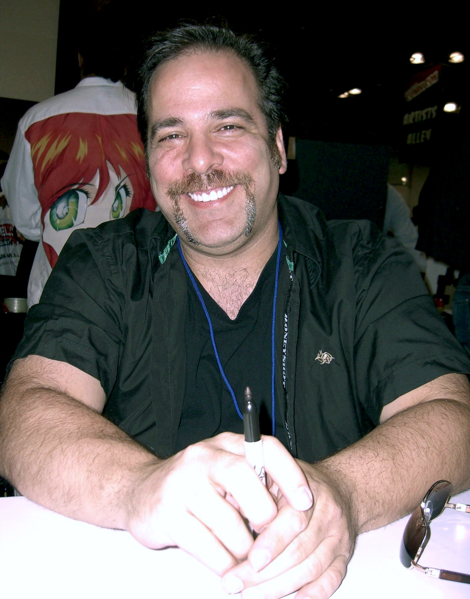 Comic book creator Jimmy Palmiotti, at the New York Comic Convention in Manhattan, October 10, 2010. This photo was created by Luigi Novi. It is not in the public domain, and use of this file outside of the licensing terms is a copyright violation.